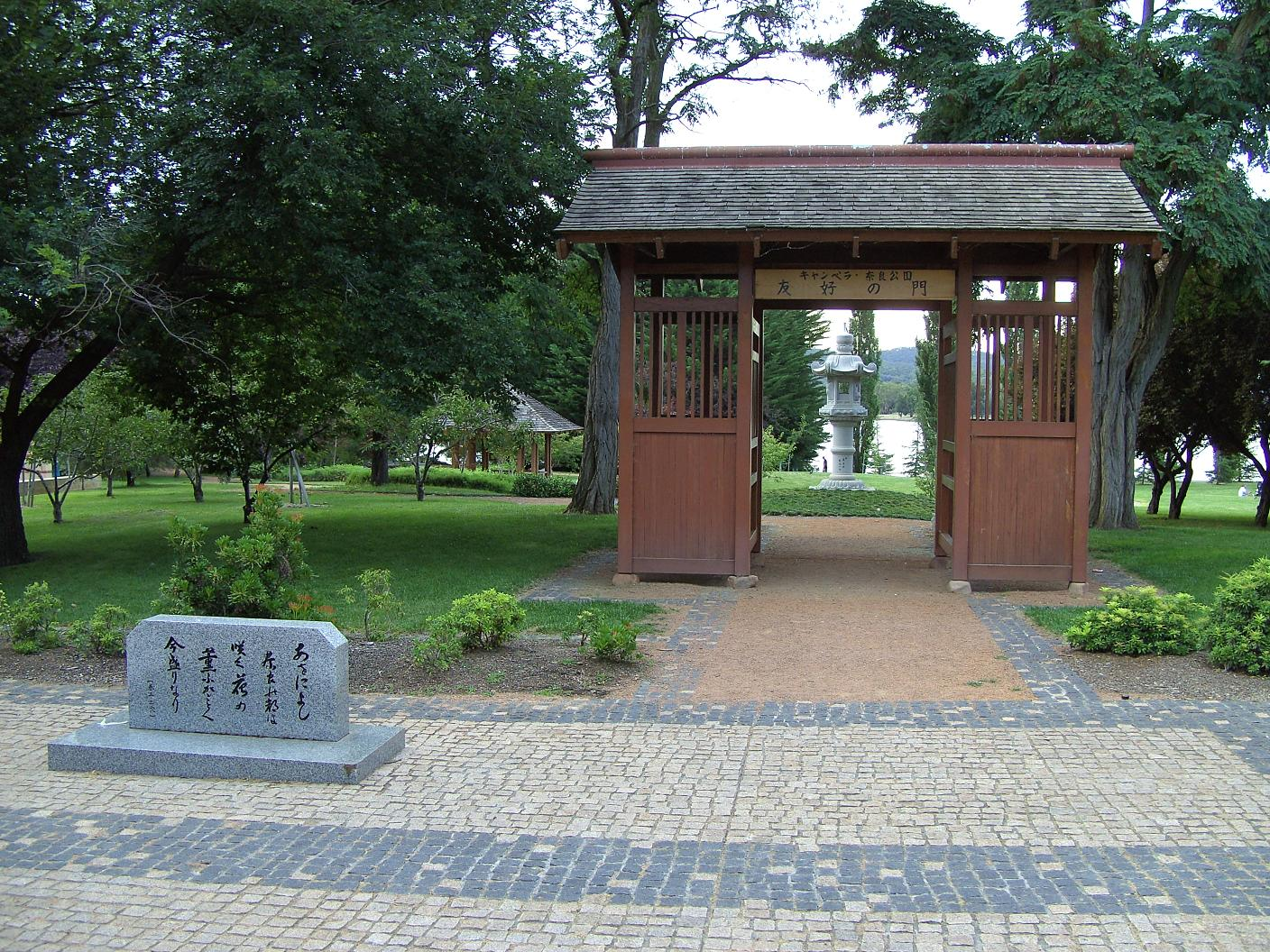 Sister city of Canberra, Nara, Japan, presented Kasuga stone lanterns to Canberra in 1997. These are sited in the Canberra-Nara Japanese garden at Lennox Gardens, beside Lake Burley Griffin that is the centrepiece of Canberra.